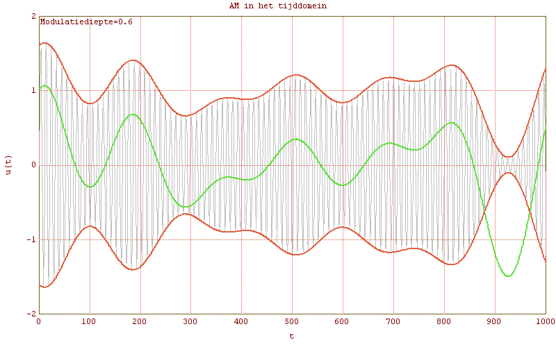 AM modulated carrier depicted in the time domain.